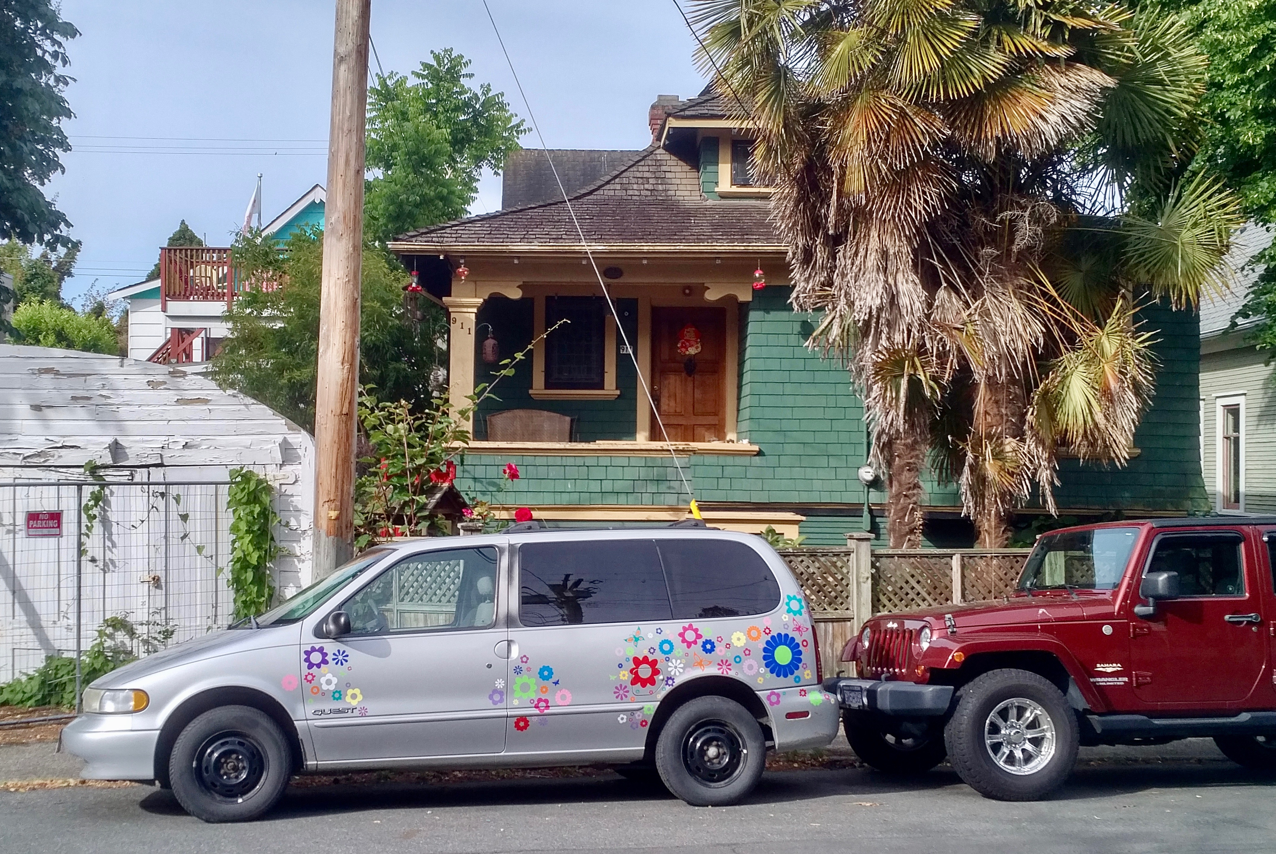 911 Collinson